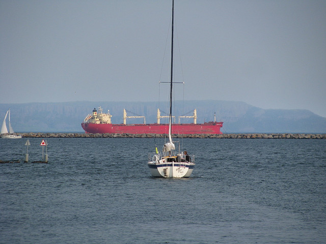 Marina park4, Thunder Bay by Richard Ogima